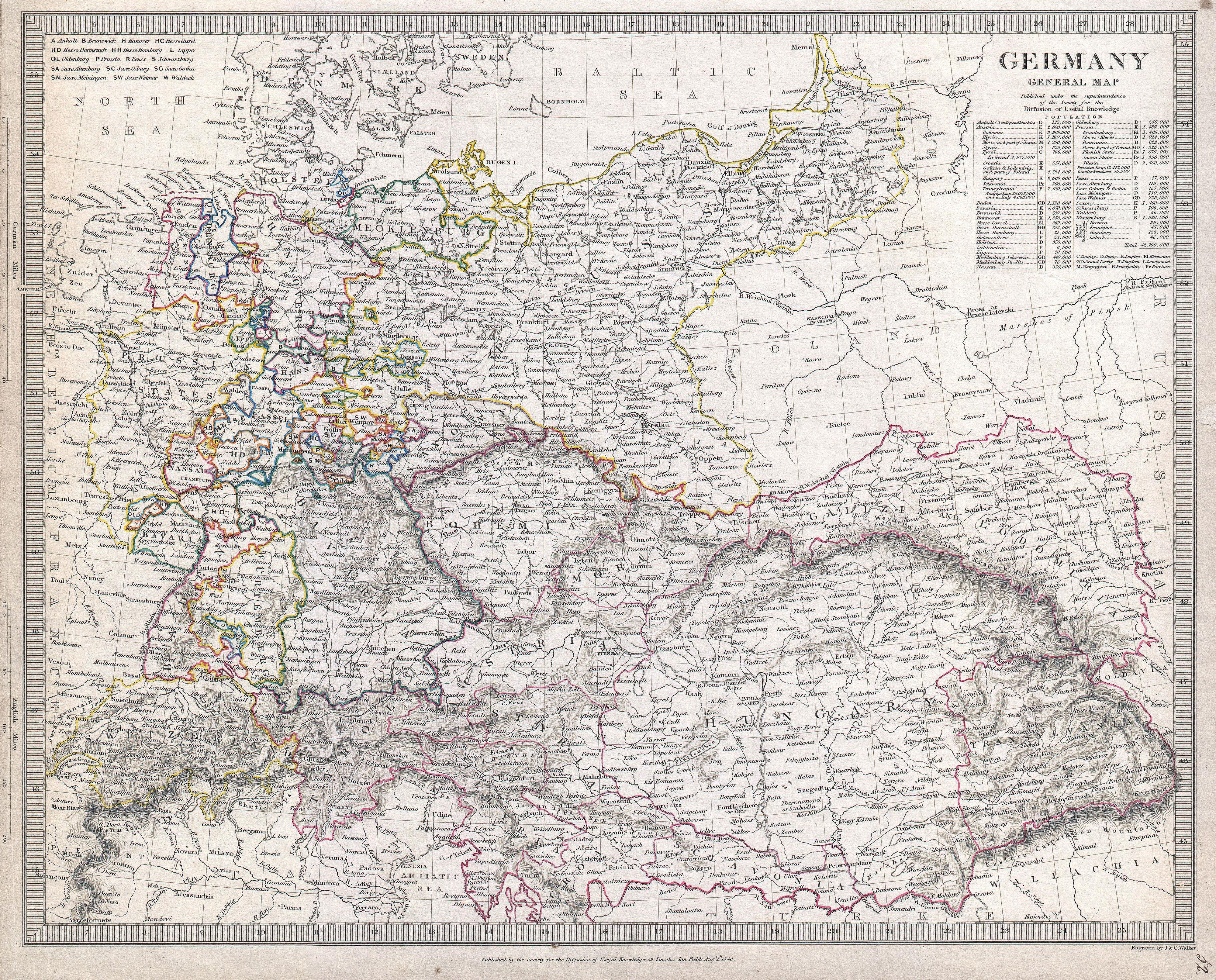 This is the Society for Diffusion of Useful Knowledge’s attractive 1840 map of Germany. Covers Germany from the North Sea to Prussia and as far south as Switzerland and Hungary. As with most S.D.U.K offers superb detail and color coding according to district. A table in the upper right quadrant offers population statistics for different German regions. Prepared as plat no. 52 for volume 2 of the Chapman and Hall issue of the S.D.U.K. Atlas.